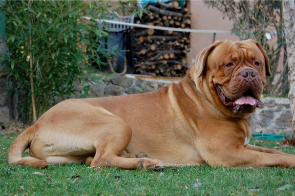 Ray de El Siscar owner: Mi Gran Amigo breeder